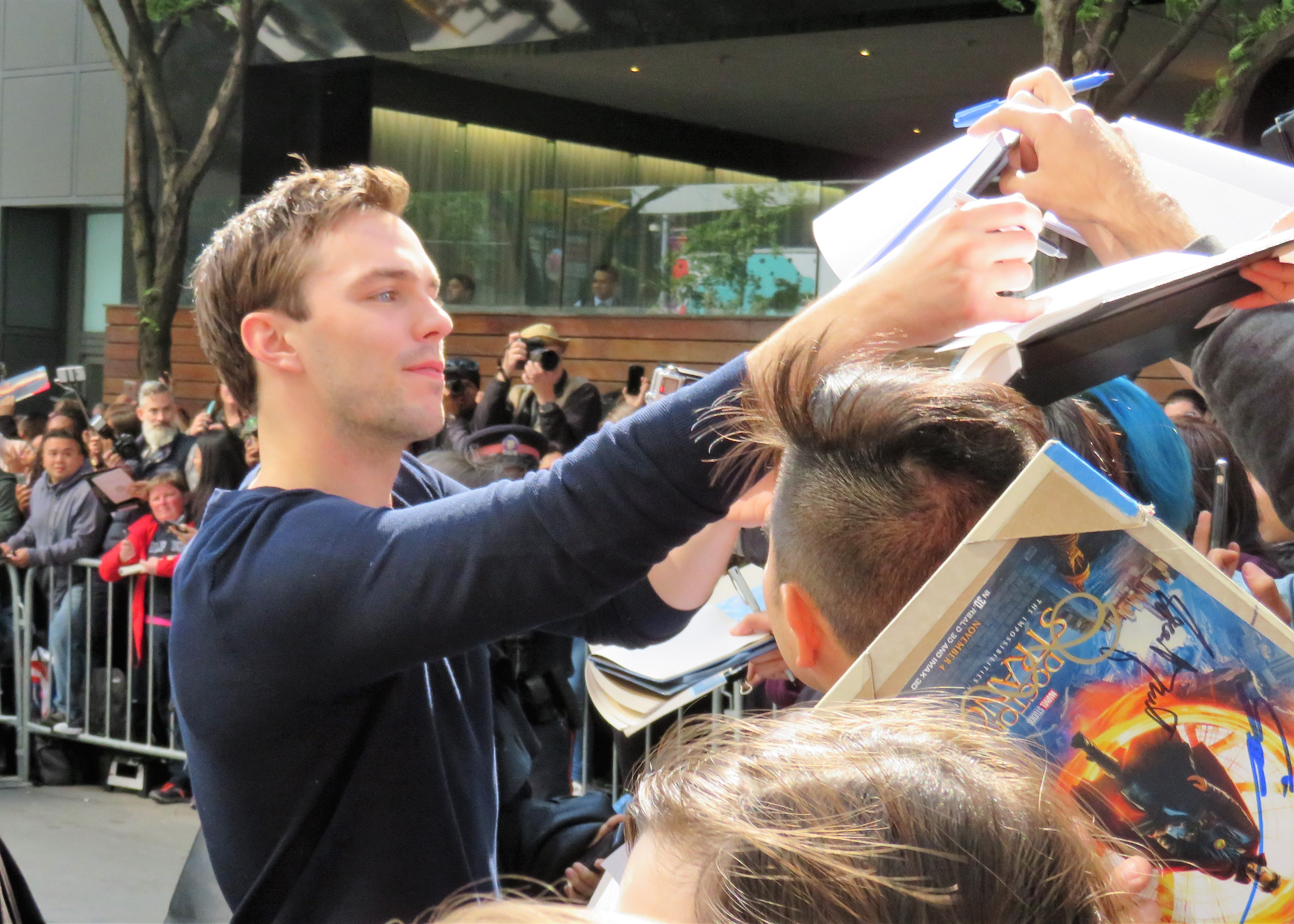 Nicholas Hoult at the press conference of The Current War, 2017 Toronto Film Festival